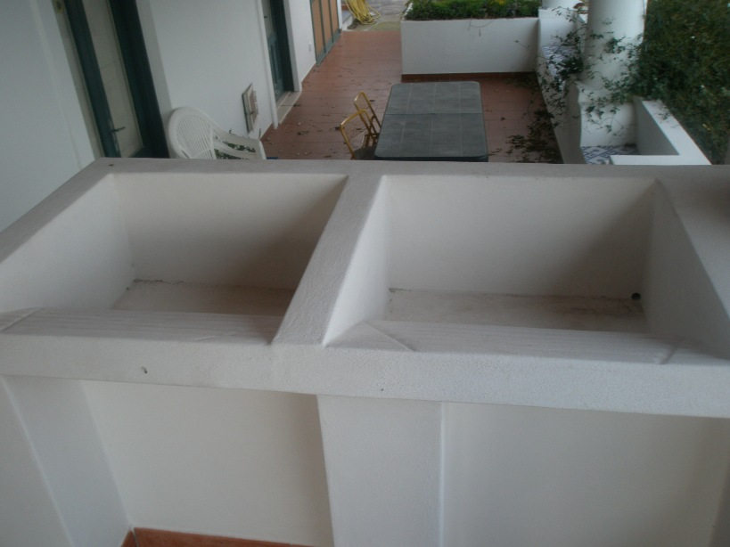 Wash-tubs for cloths & others in the Aeolian Islands, Italy